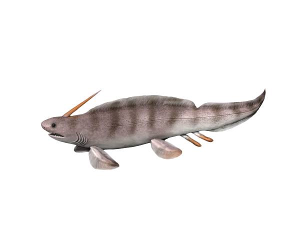 Life reconstruction of Xenacanthus decheni